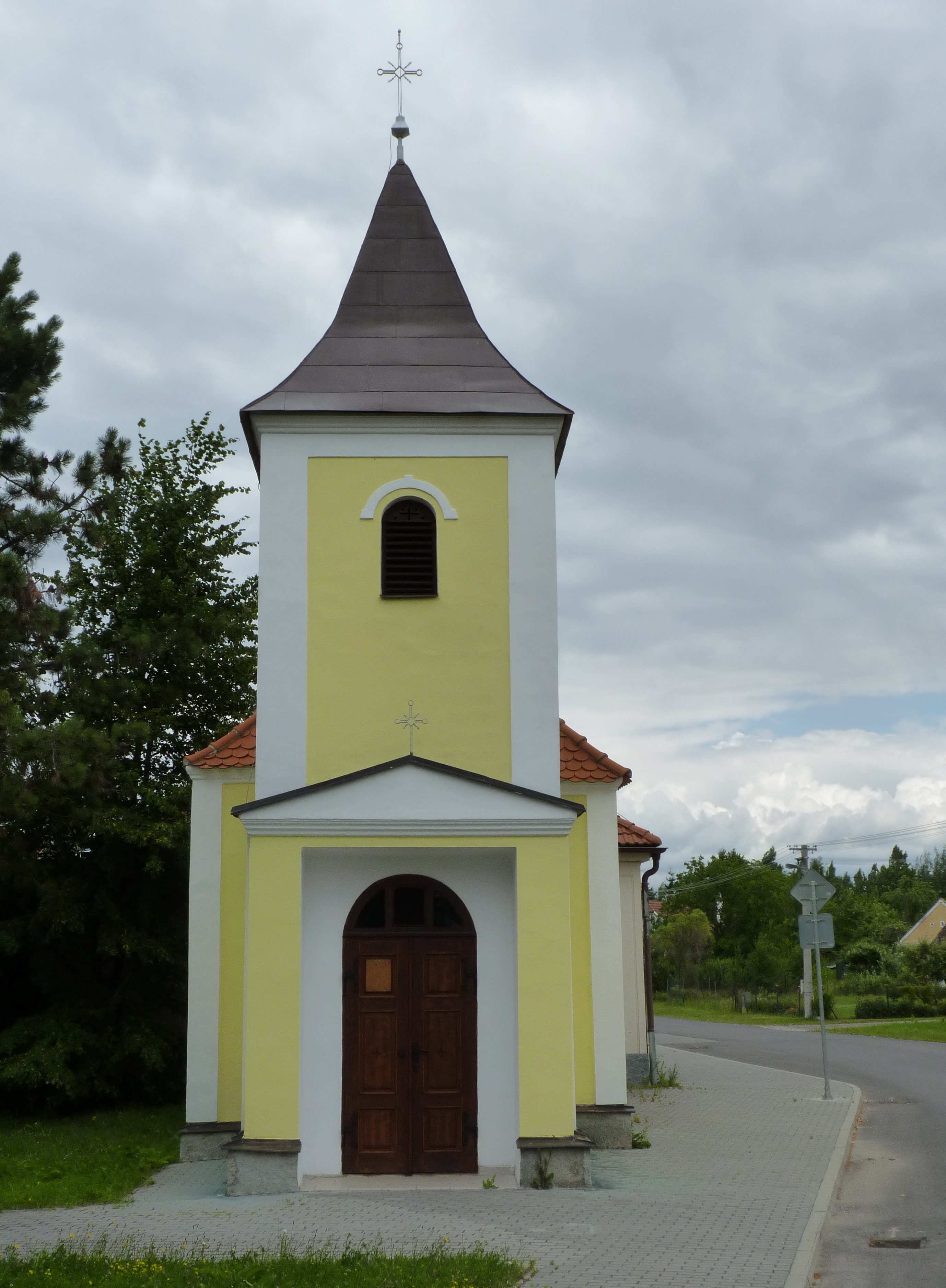 Přeseka (Třeboň). Jindřichův Hradec District, South Bohemian Region, Czech Republic